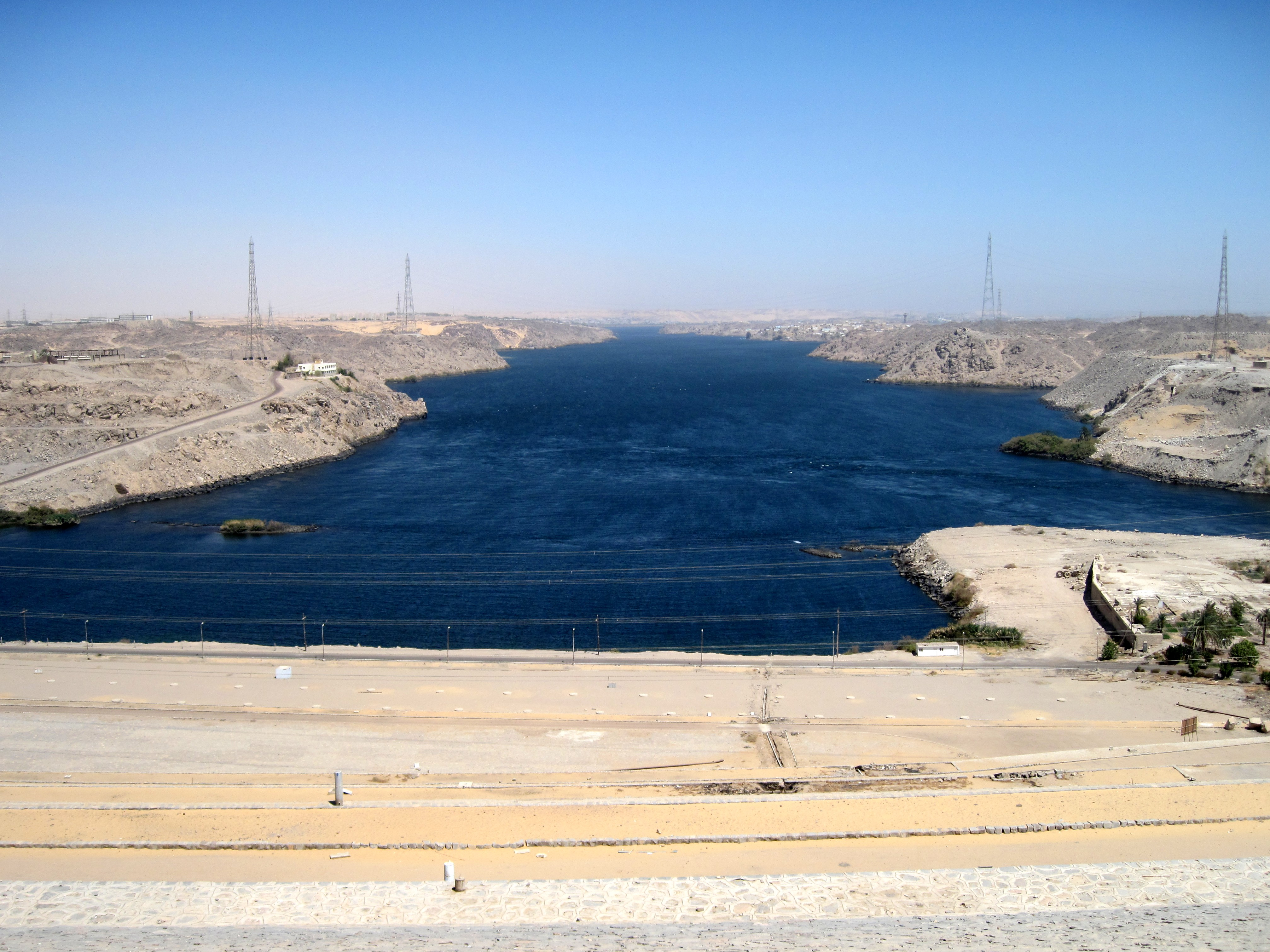 The Aswan High Dam in Egypt.